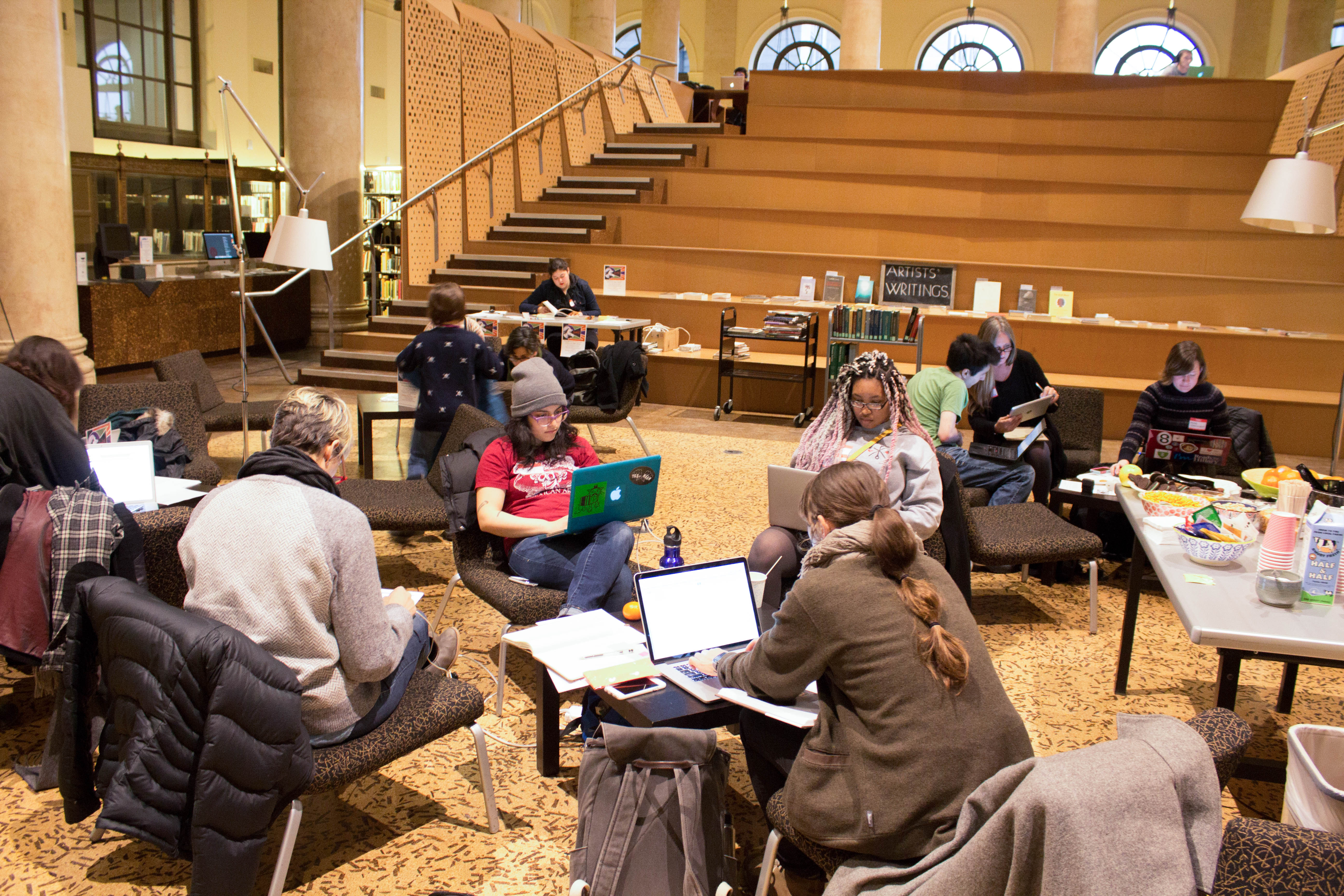 Editing together in the common area of the Fleet Library, Rhode Island School of Design